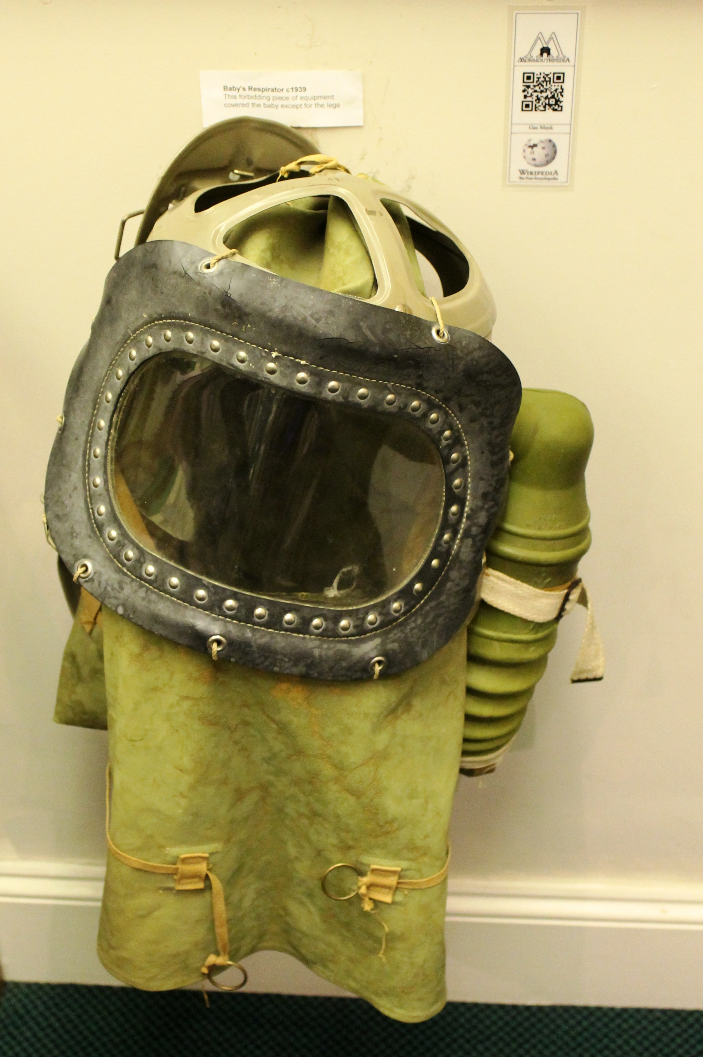 A QRpedia code on a baby's gasmask at Monmouth Regimental Museum.